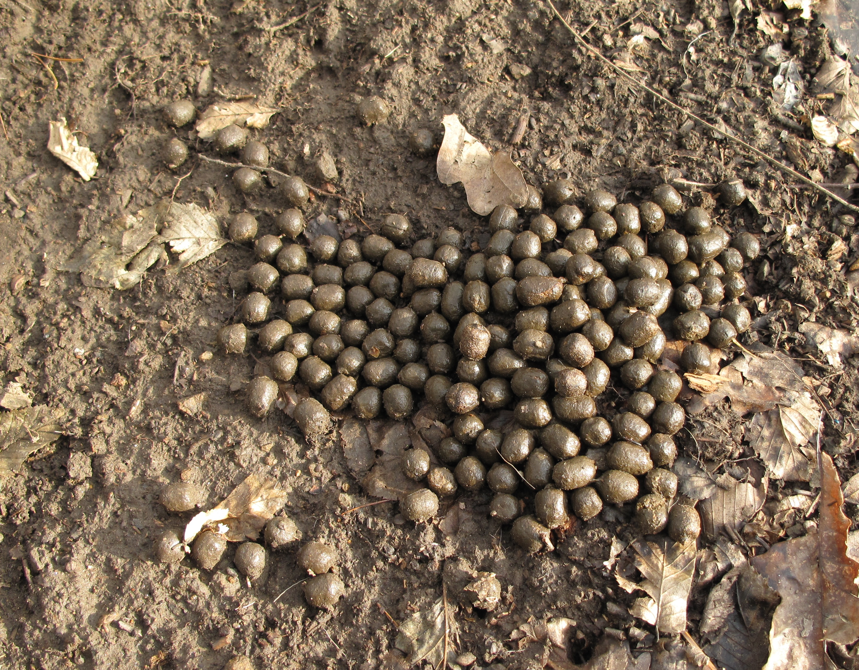 Hare's pooes. Poličany village, Příbram District, Czech Republic.